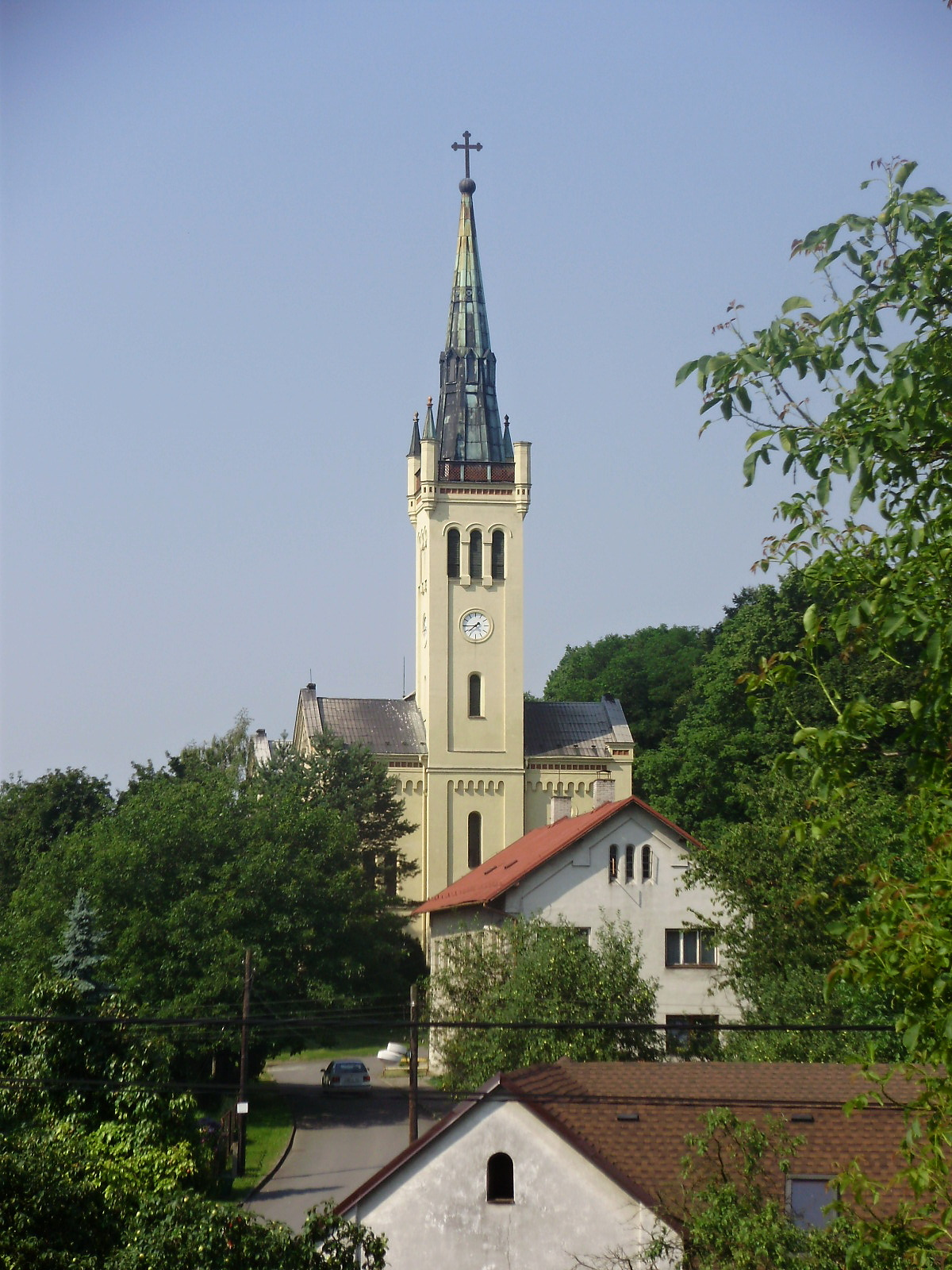 Protestant church in Suchdol nad Odrou (Zauchtel), Czech republic